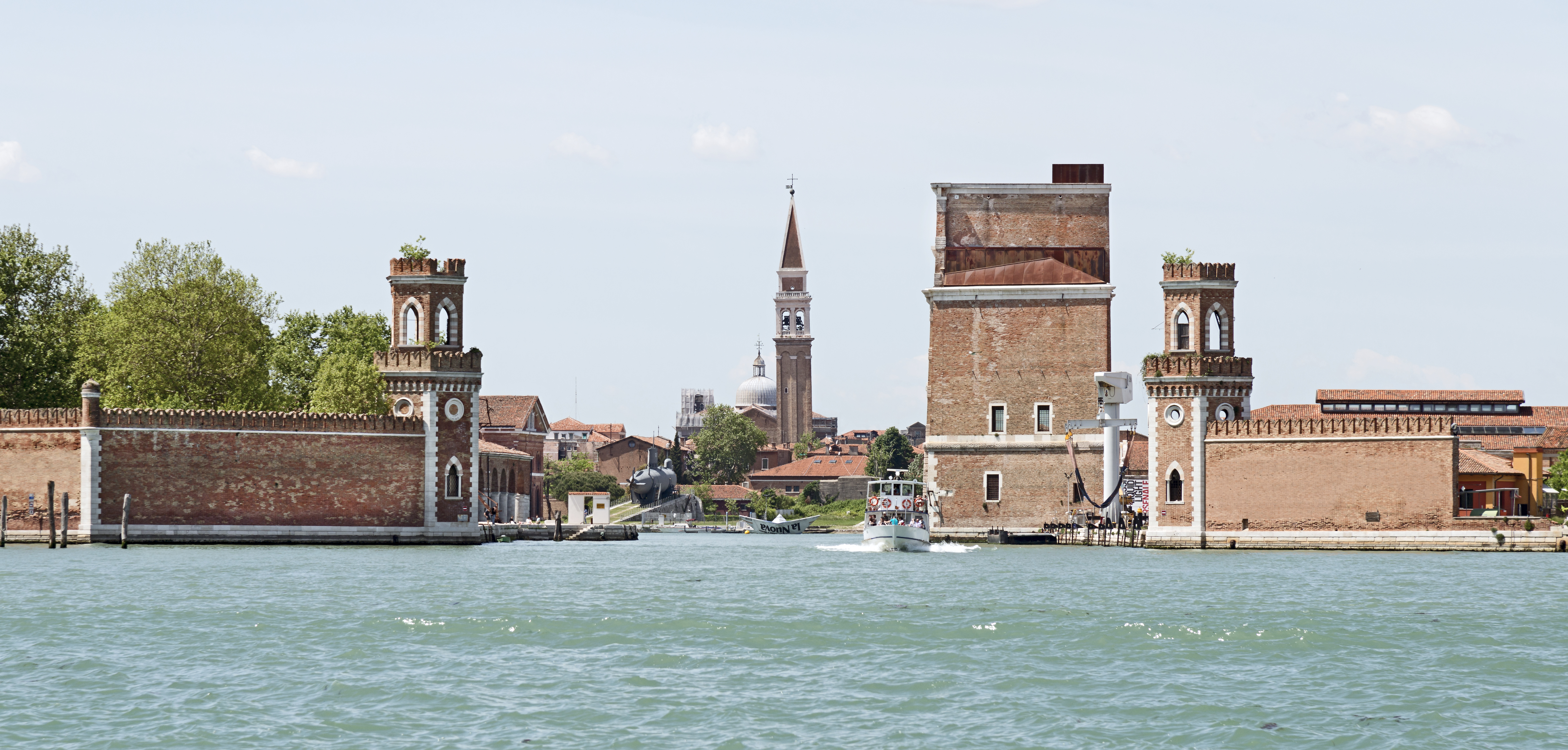 Canale di Porta Nuova in Venice. The channel, seen of the lagoon.